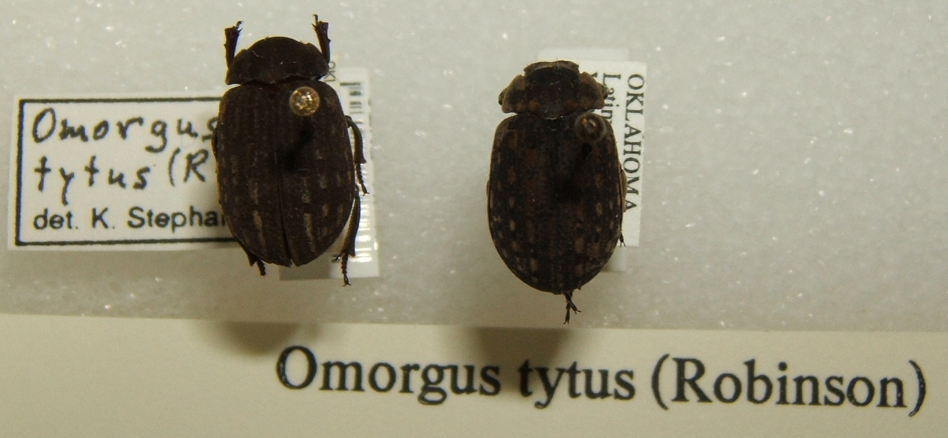 Omorgus tytus adult taken by Shawn Hanrahan at the Texas A&M University Insect Collection in College Station, Texas.